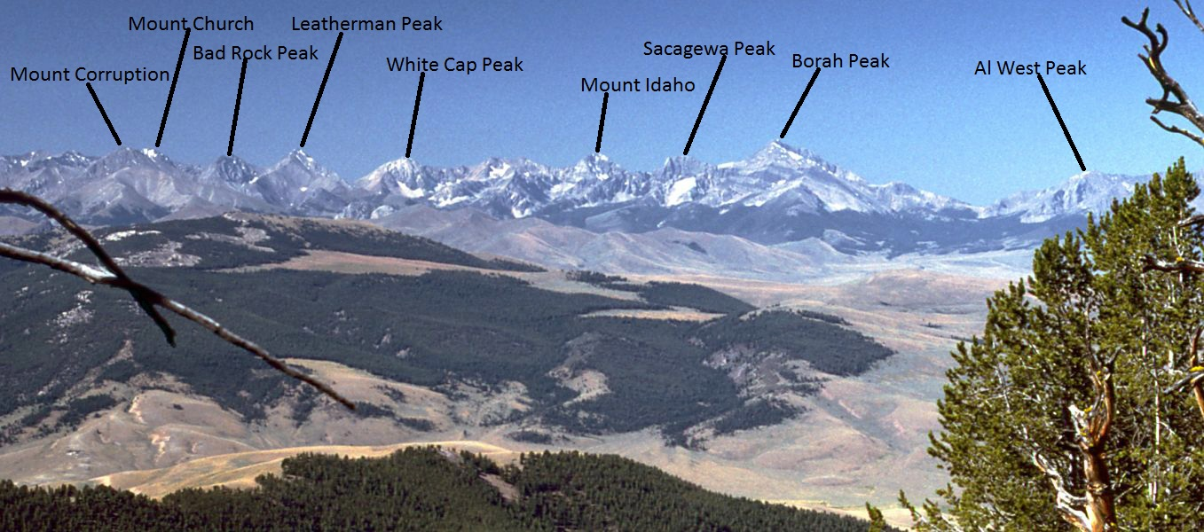 The labelled peaks of the Lost River Range in Idaho. Looking southwest from Iron Creek Point in the Lemhi Range. This is an adaptation of LostRiverRangeID.jpg by G. Thomas.